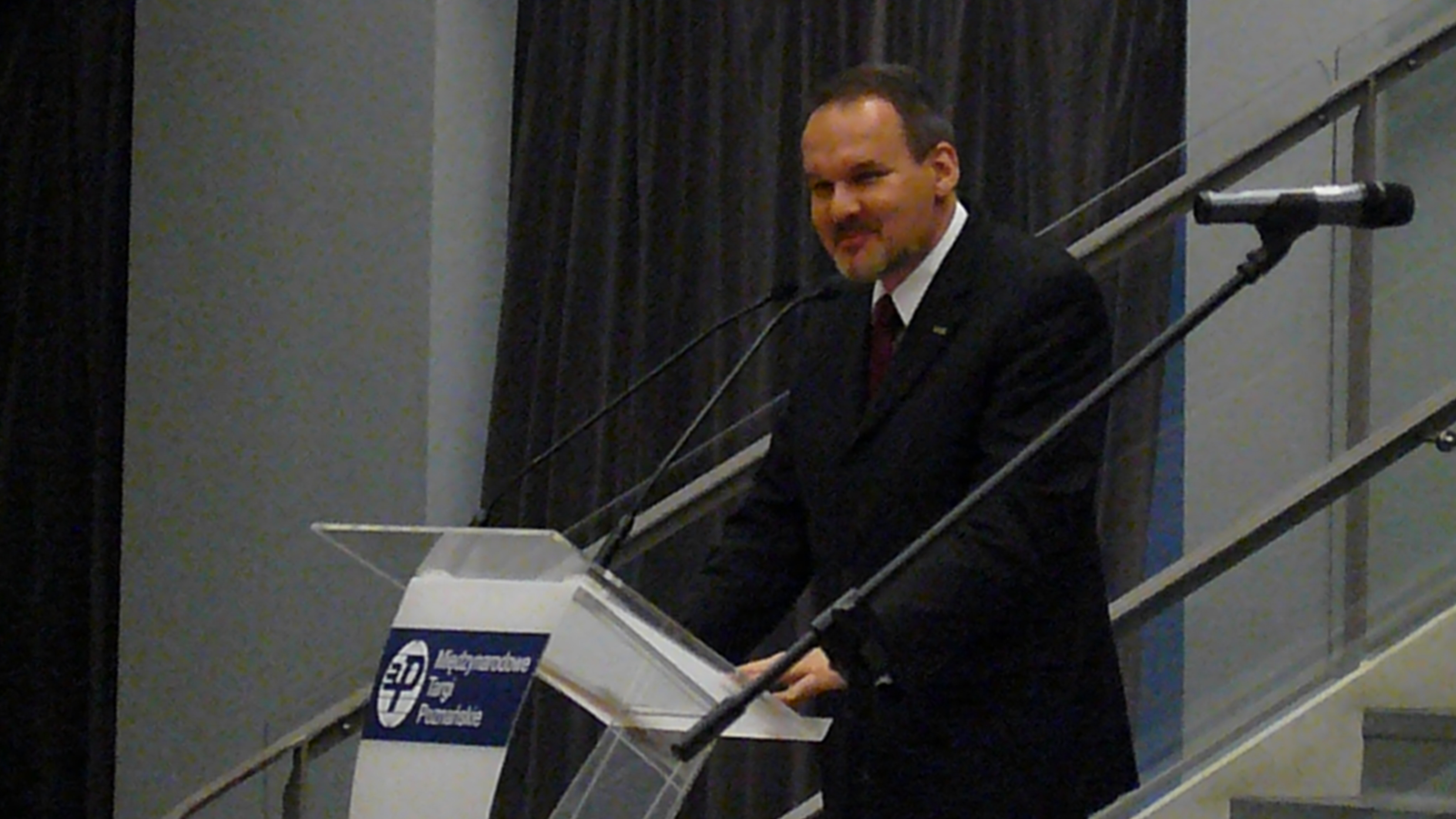 Tomasz Kayser, vicepresident of Poznan.